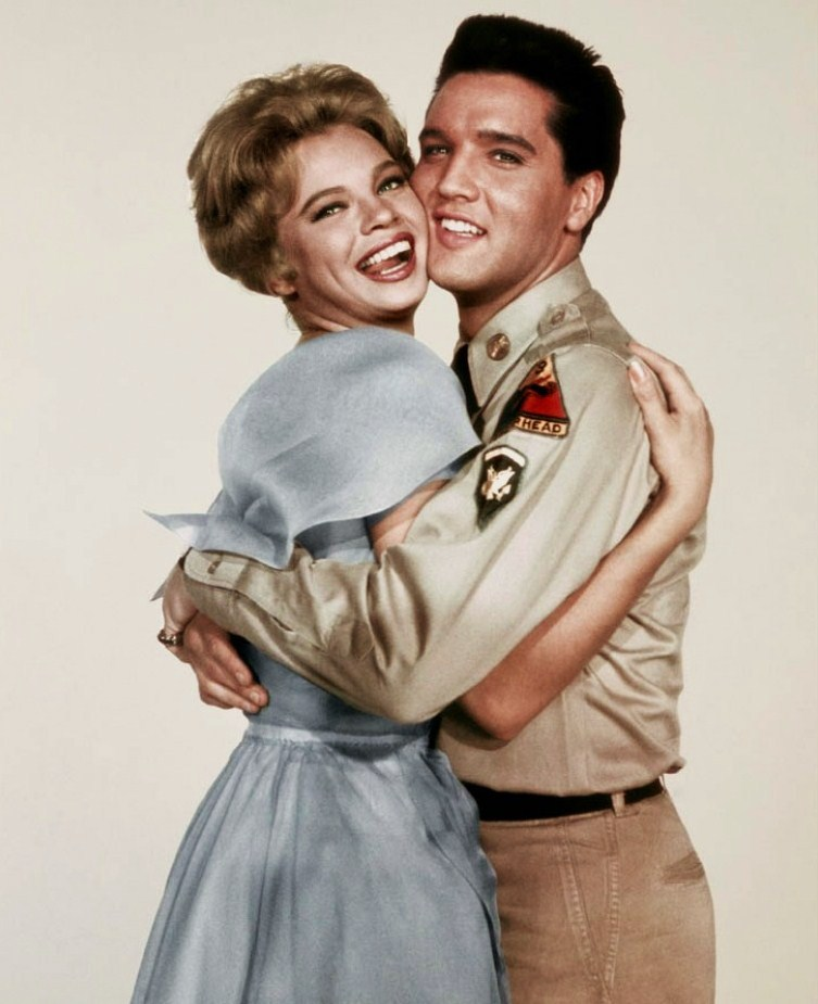 Juliet Prowse & Elvis Presley in G.I. Blues - publicity still